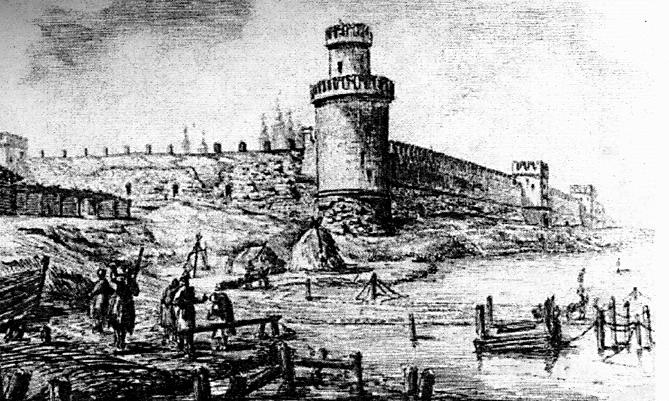 Sviblova tower of Kolomna Kremlin. By Matvey Kazakov.